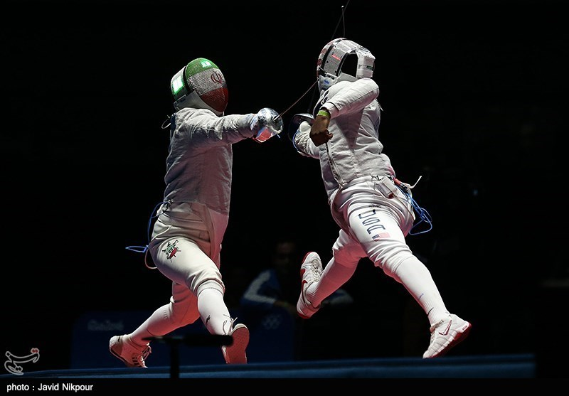 Fencing at the 2016 Summer Olympics